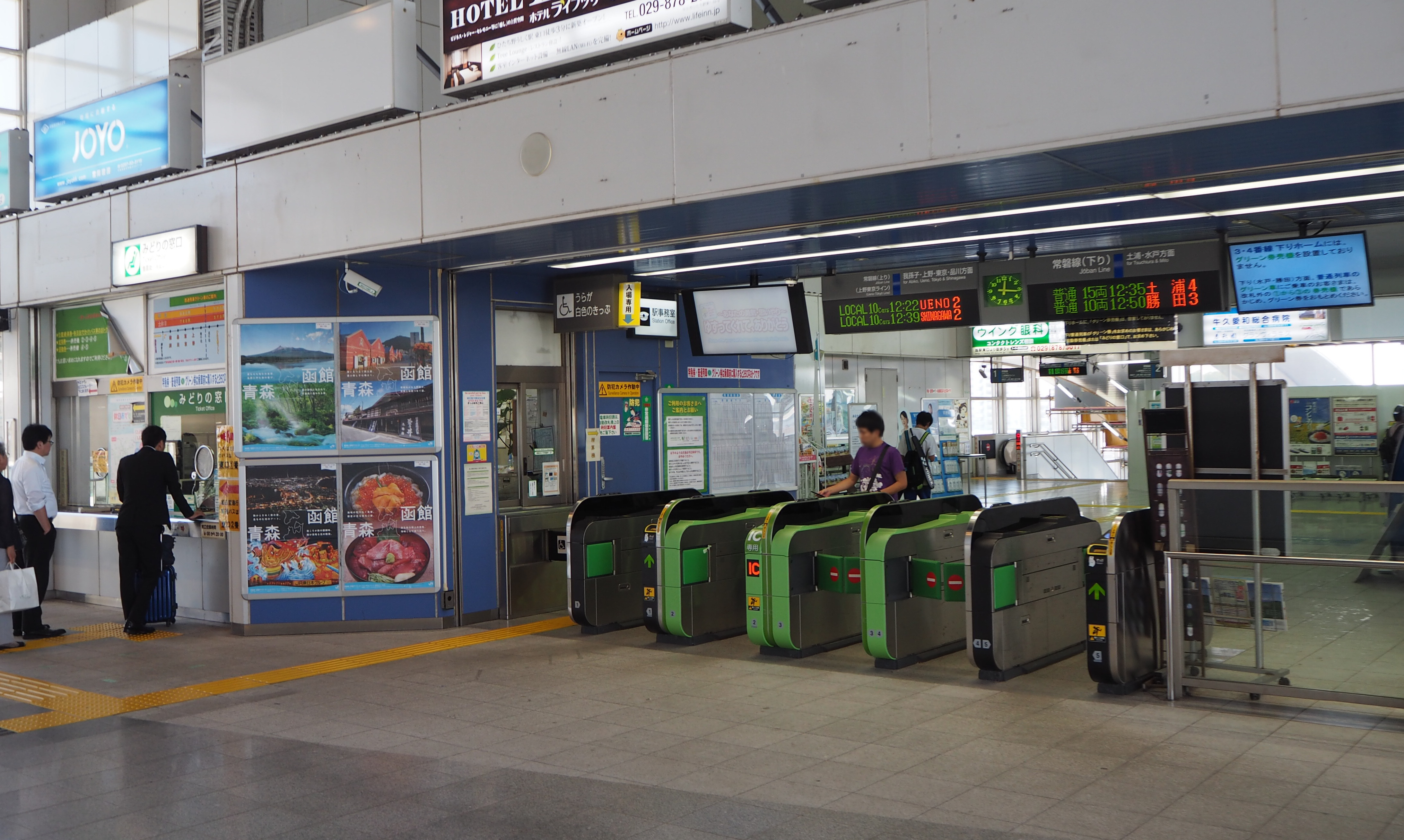 Ticket barriers of Hitachino-Ushiku Station